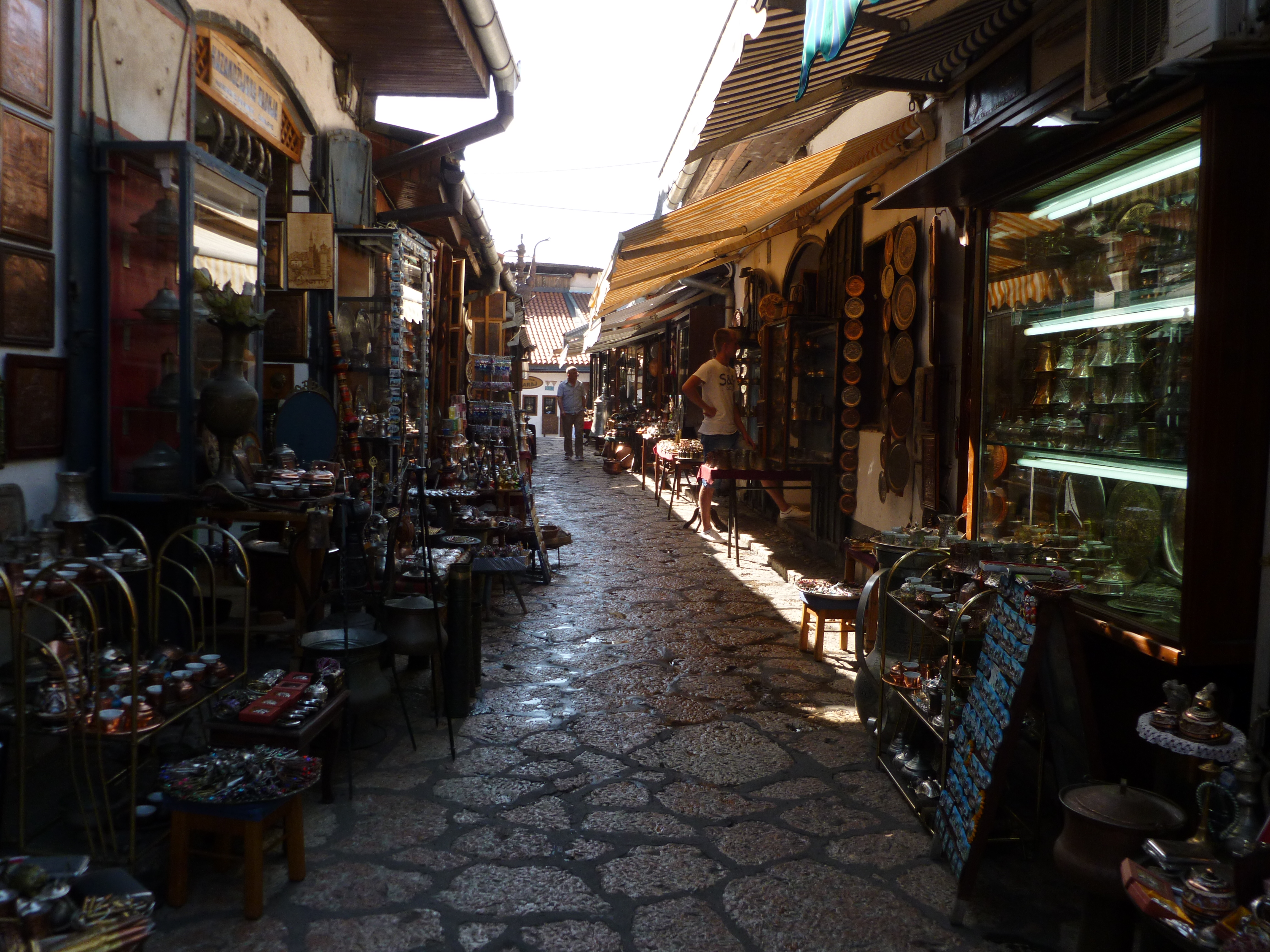 Sarajevo, mother of Europe